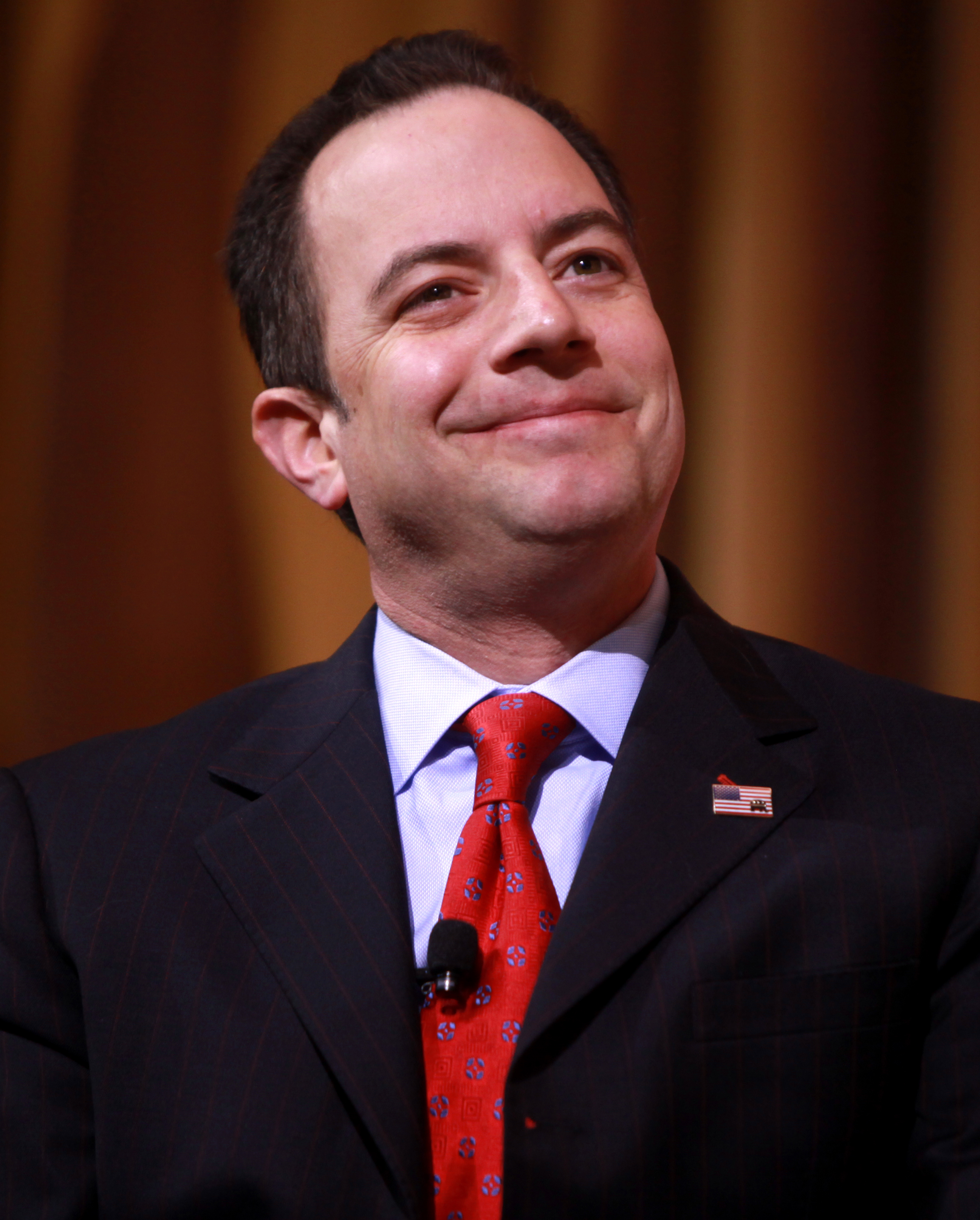 Reince Priebus speaking at CPAC 2014 in Washington, DC.